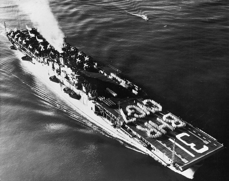 The U.S. Navy aircraft carrier USS Bon Homme Richard (CVA-31) returning from her deployment to Korea with Carrier Air Group Seven (CVG-7). In addition to the CVW-7's Vought F4U Corsair and Douglas AD Skyraider planes, also three Douglas R4D transport planes are carried as deckload. The photo was taken on 31 December 1952 off Pearl Harbor (Hawaii, USA). See:[1]